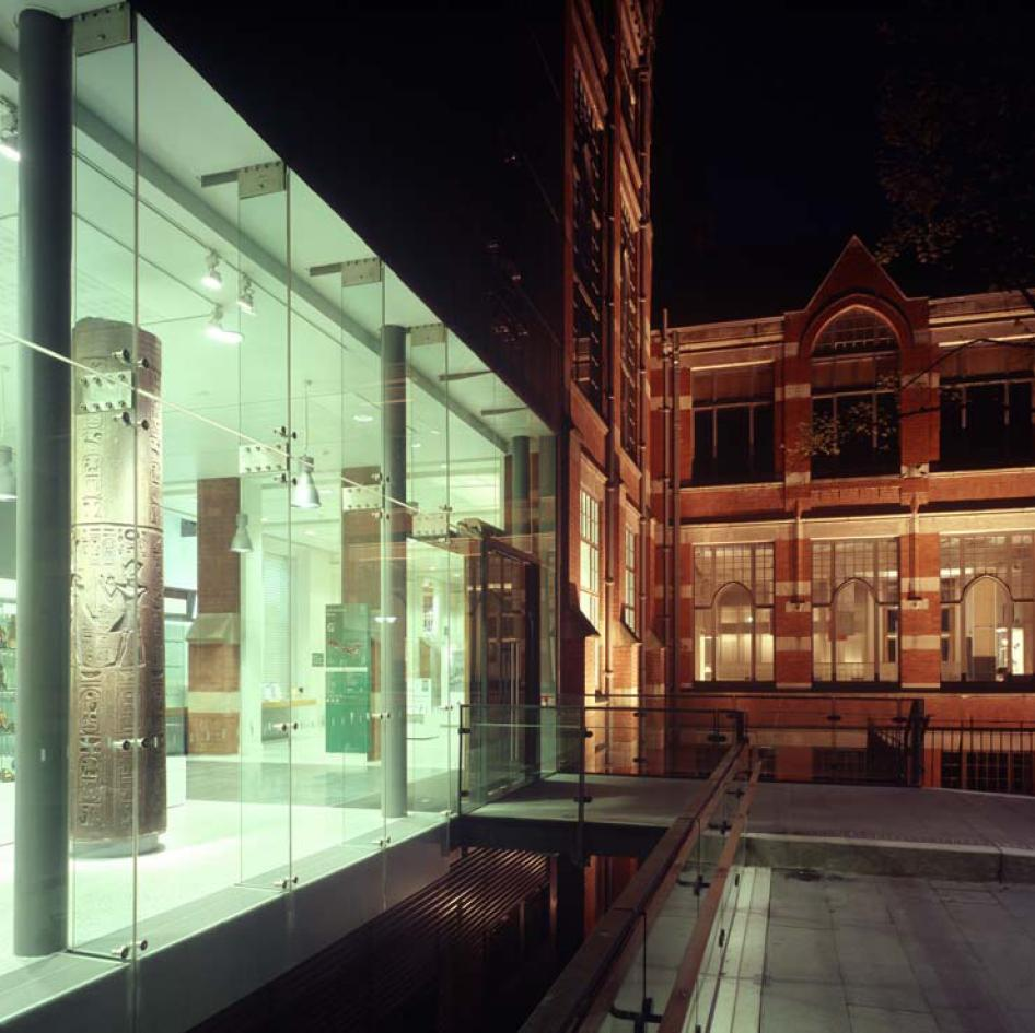 Source: Myself, Canon Camera Modern entrance at night